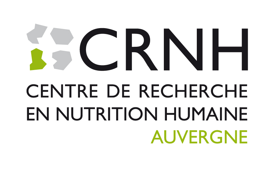 Logo CRNH Auvergne